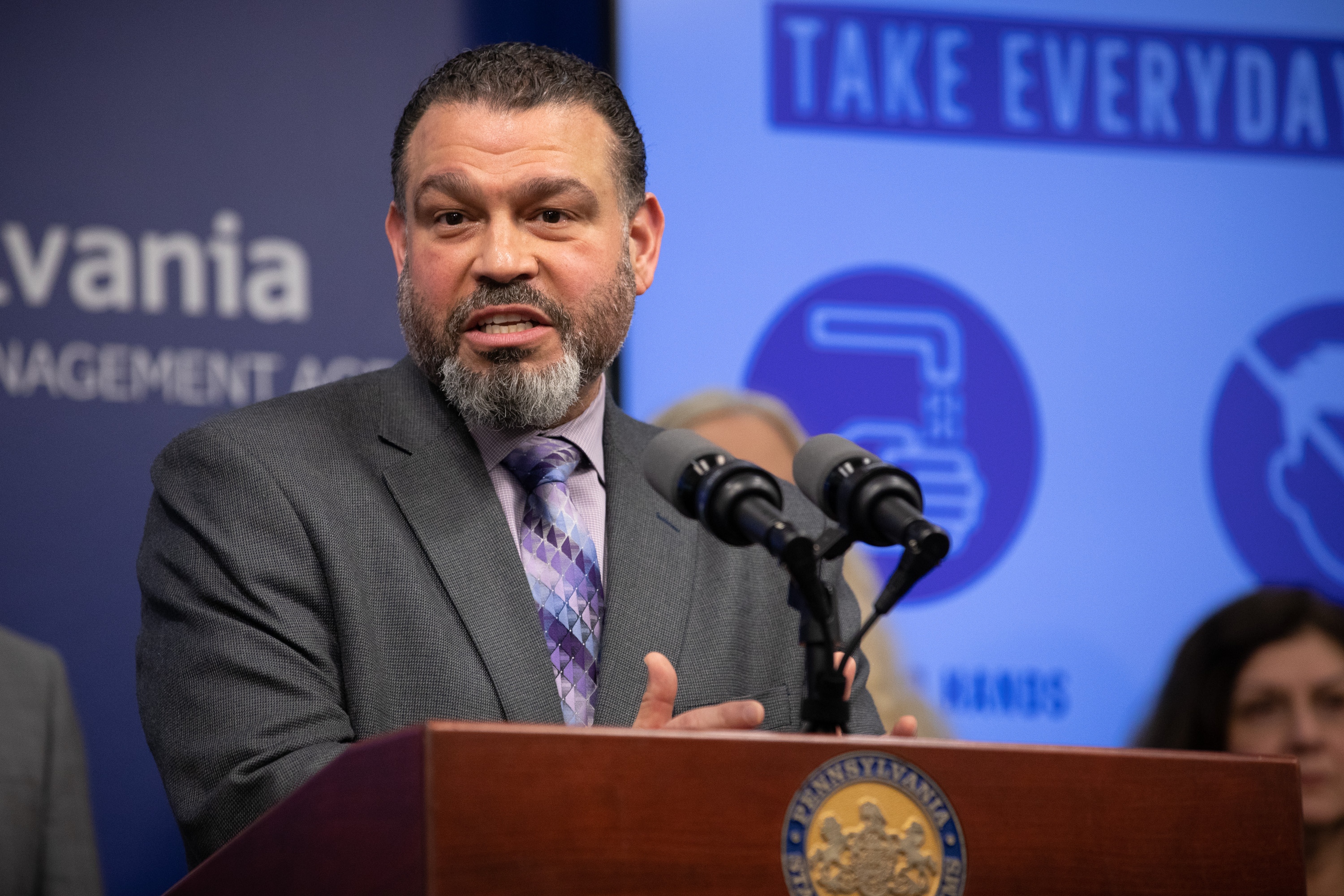 Secretary of Education Pedro Rivera speaks to the press.Governor Tom Wolf, Secretary of Health Dr. Rachel Levine, Secretary of Education Pedro Rivera, and President of the Pennsylvania Chamber of Business and Industry Gene Barr provided an update on the coronavirus known as COVID-19 and outline ongoing efforts to mitigate the virus in Pennsylvania. March 13, 2020 - Harrisburg, Pennsylvania